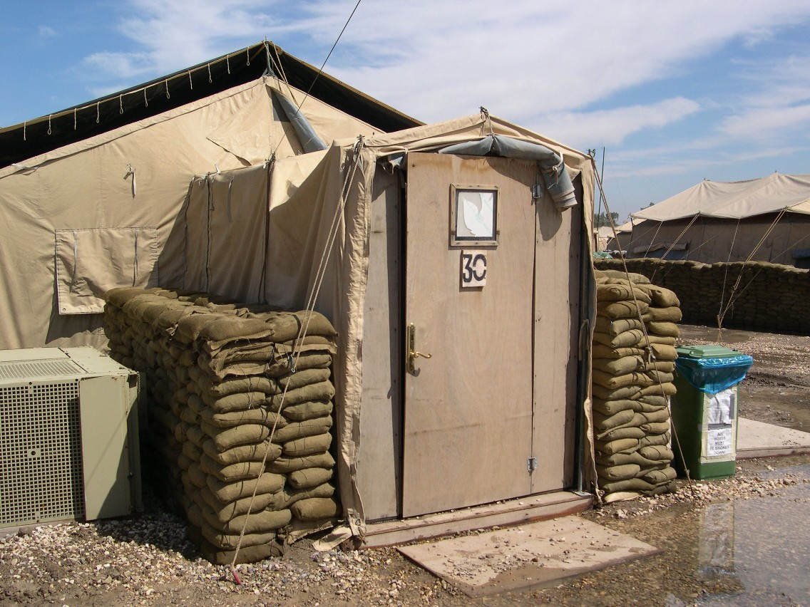 U.S. Army tent with constructed wooden entrance, climate control unit and sandbags for protection. Victory Base, Baghdad, Iraq (April 2004). Photo by Peter Rimar.